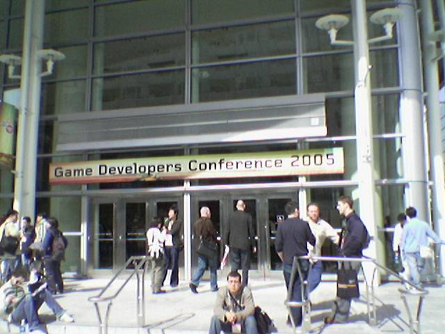 Game Developers Conference 2005 entrance